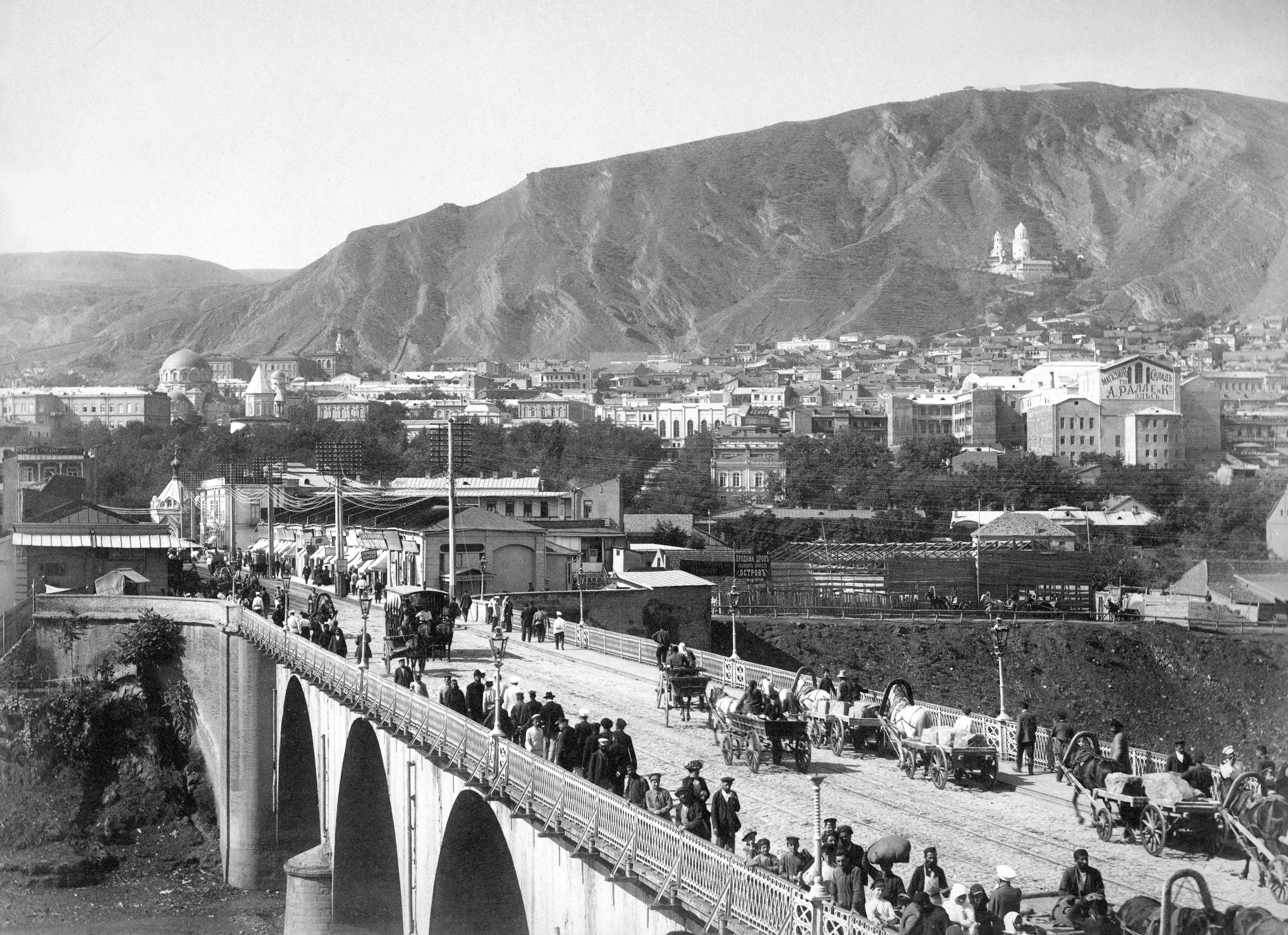 Tbilisi in XIX century, Mikhail Vorontsov bridge